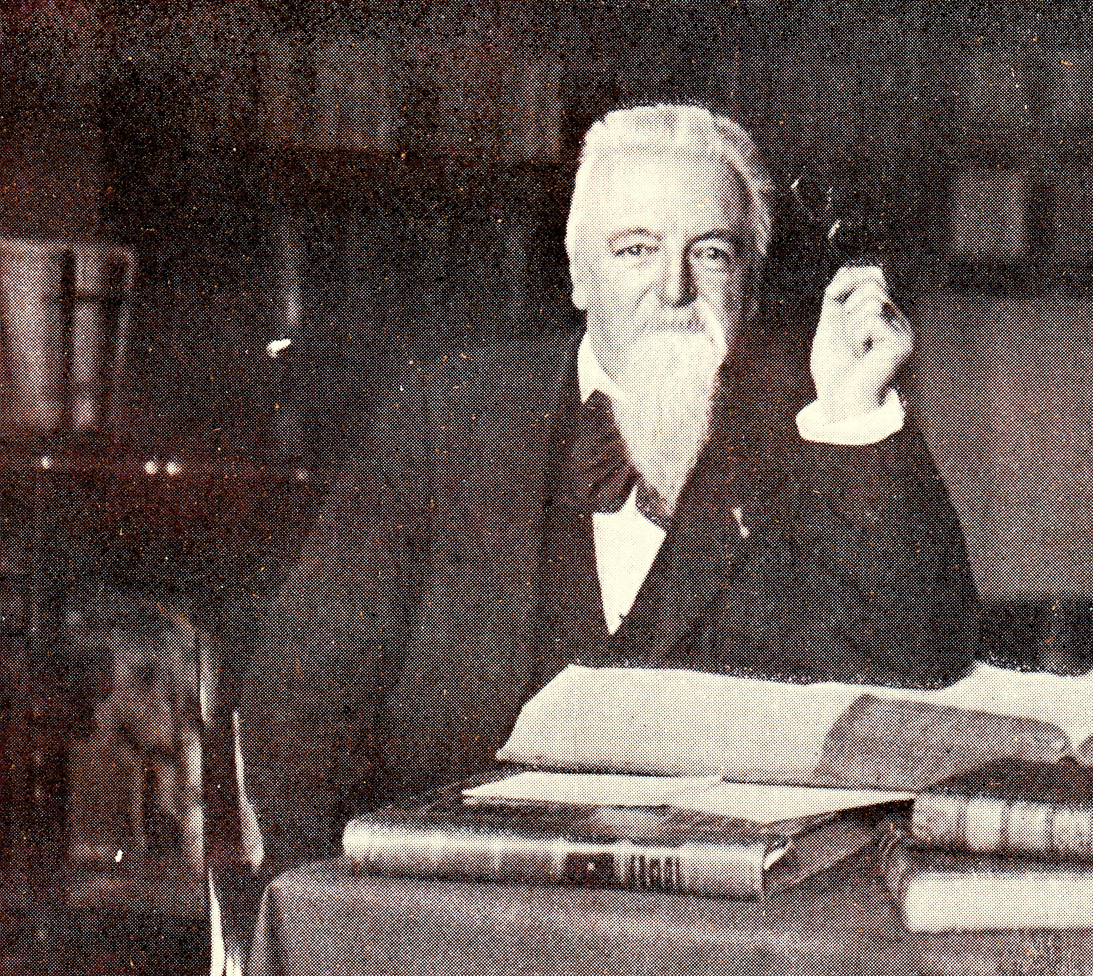 Preof. Mr. S.J. Fockema Andreae